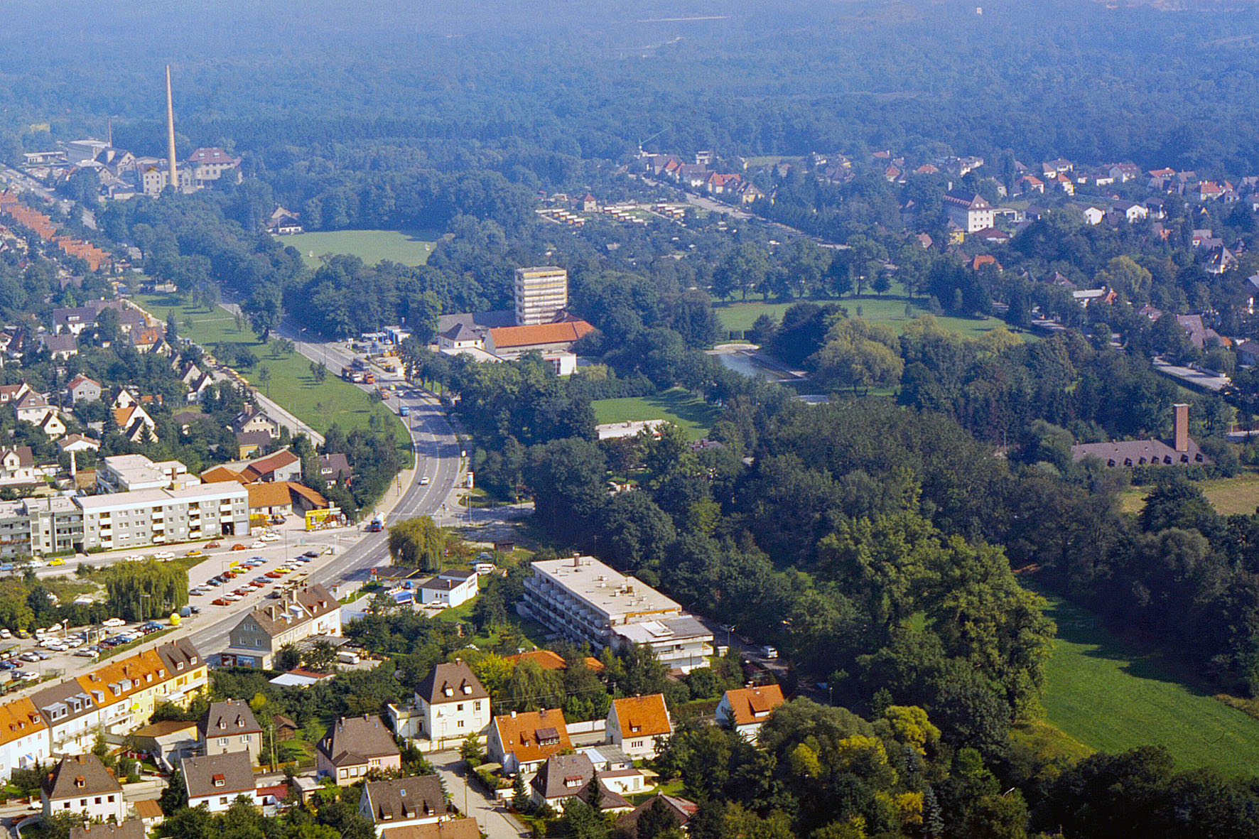 München/Freimann Floriansmühle mit Floriansmühlenbad.